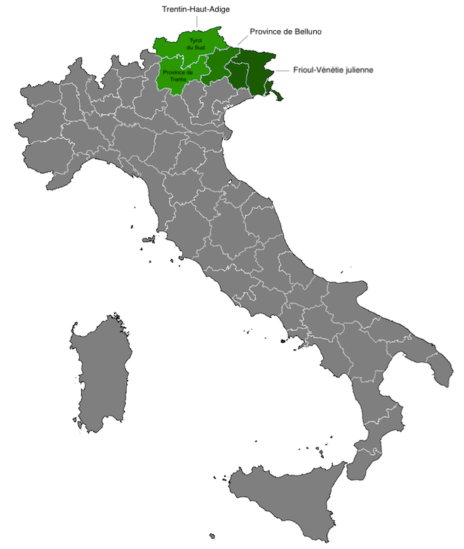 Central European areas in Italy.